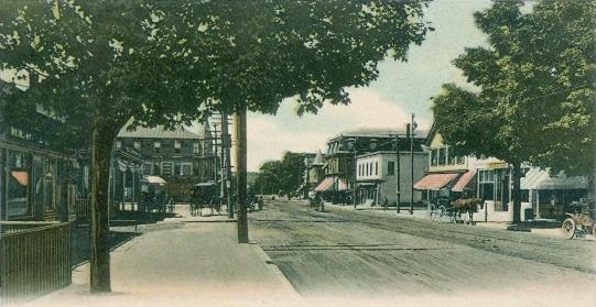 Broadway, looking west, West Derry, New Hampshire; from a c. 1905 postcard published by L. H. Pillsbury & Son, West Derry, New Hampshire.